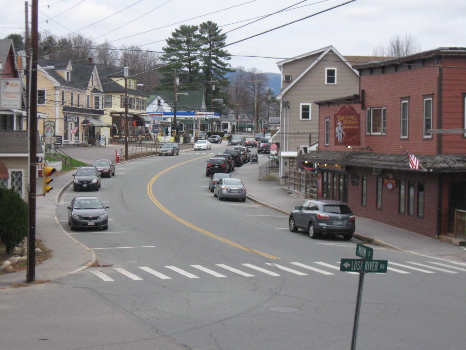 View of Main Street (U.S. Route 3) in North Woodstock, New Hampshire.